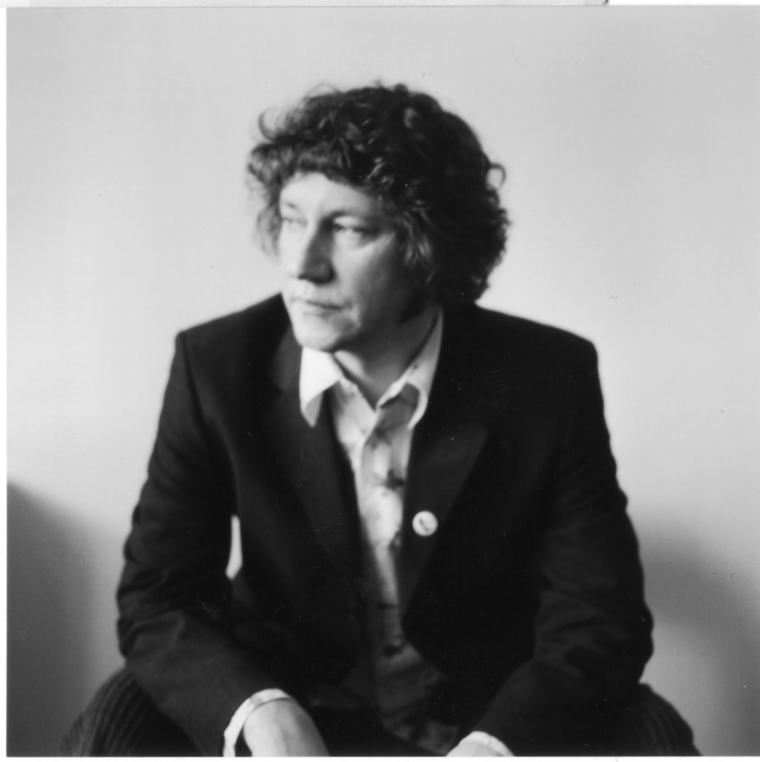 Portrait of polish writer Adam Wiedemann made by Michal Placzek.